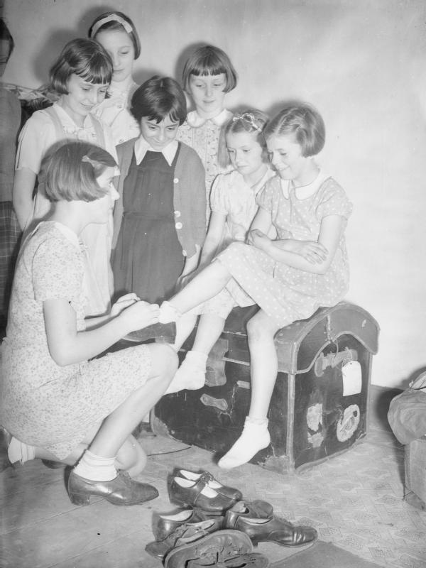 Channel Island Evacuees Try on American Clothing in Marple, Cheshire, England, 1940 A group of girls evacuated from the Channel Islands to Marple in Cheshire try on clothes and shoes which have been donated as gifts by America.